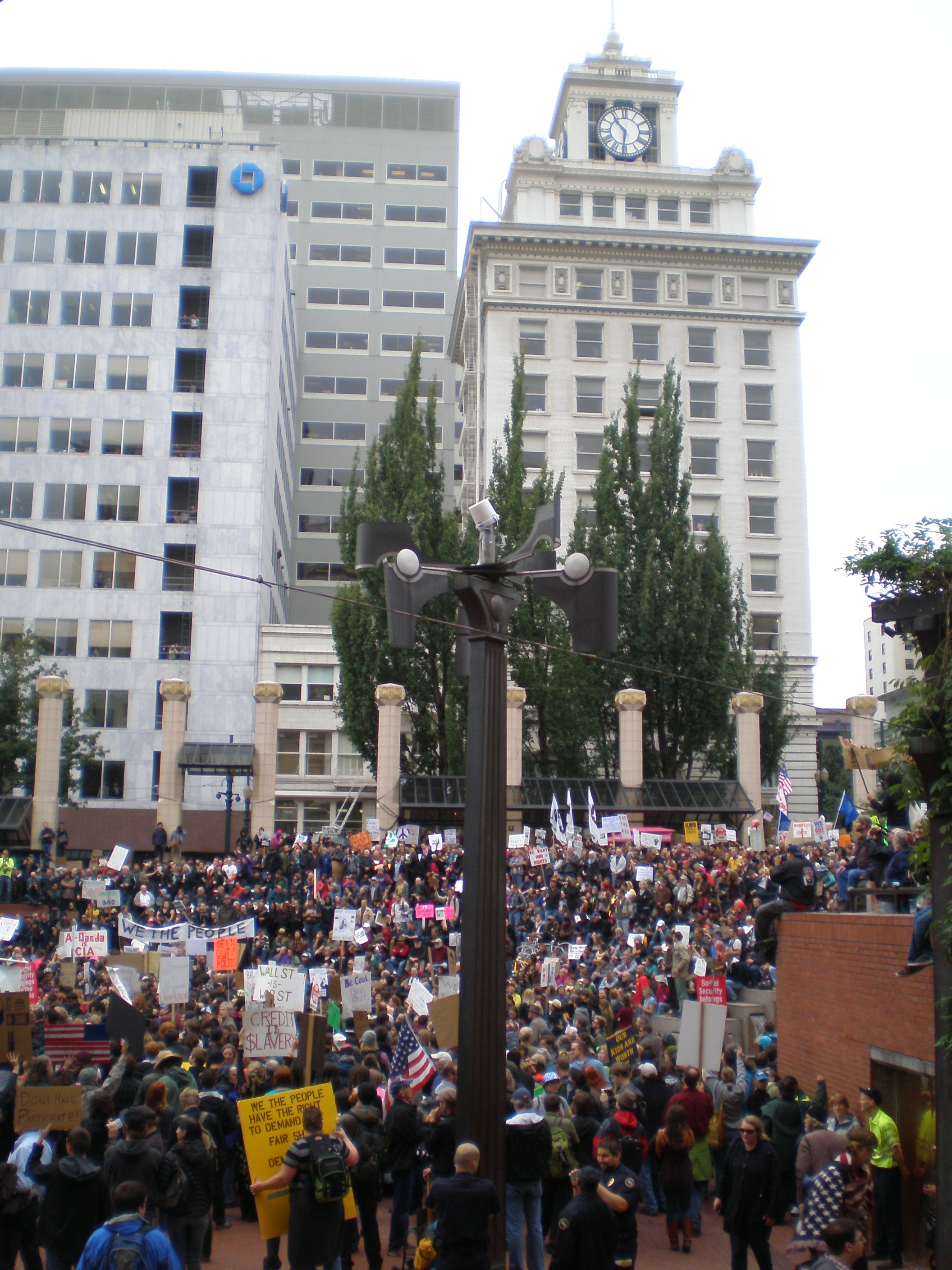 Occupy Portland protest at Pioneer Courthouse Square in downtown Portland, Oregon on October 6, 2011